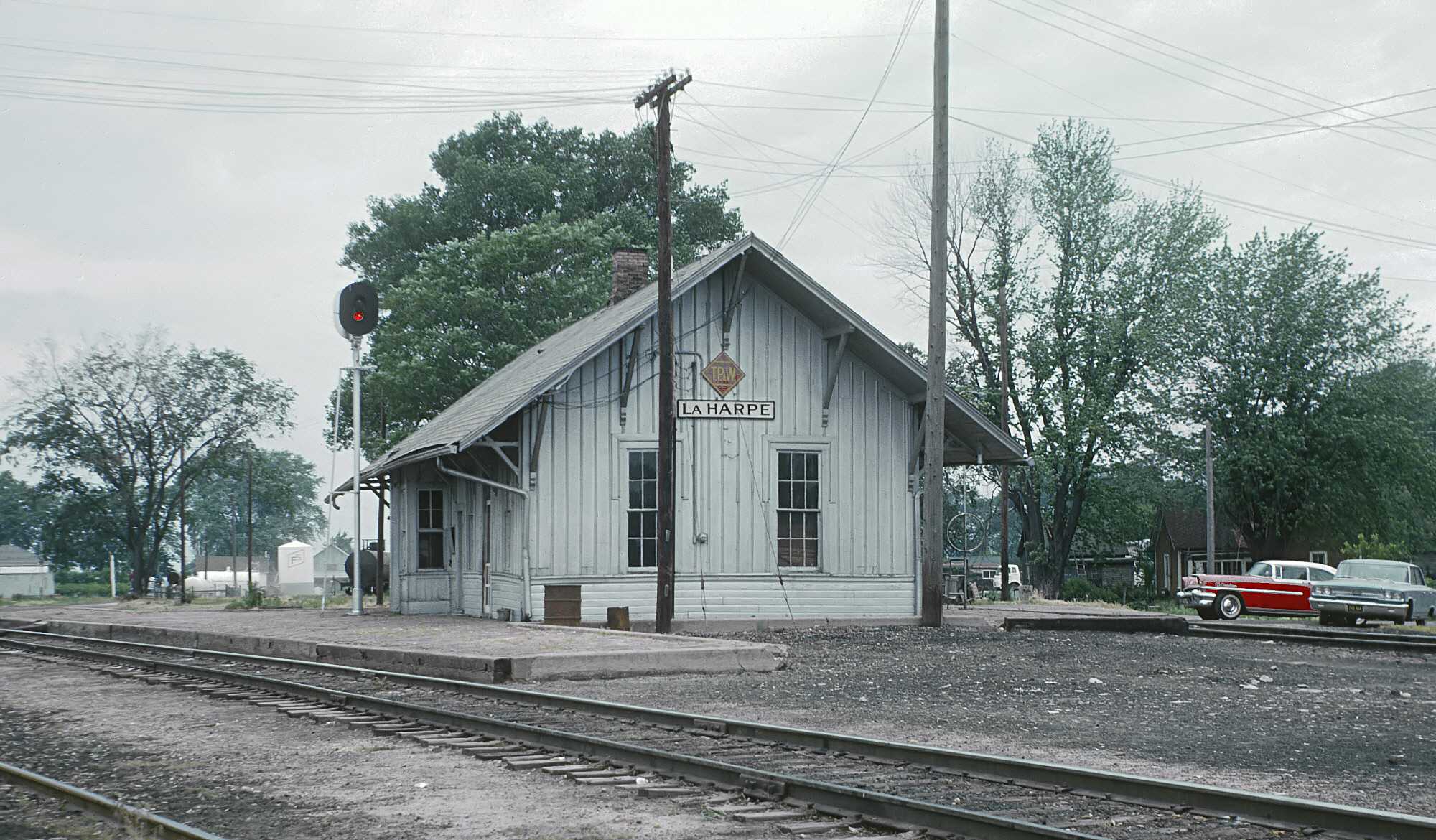 The line to Keokuk goes off to the left in front of the depot; to Lomax to the right and behind the depot. Roger Puta took this in June 1963.